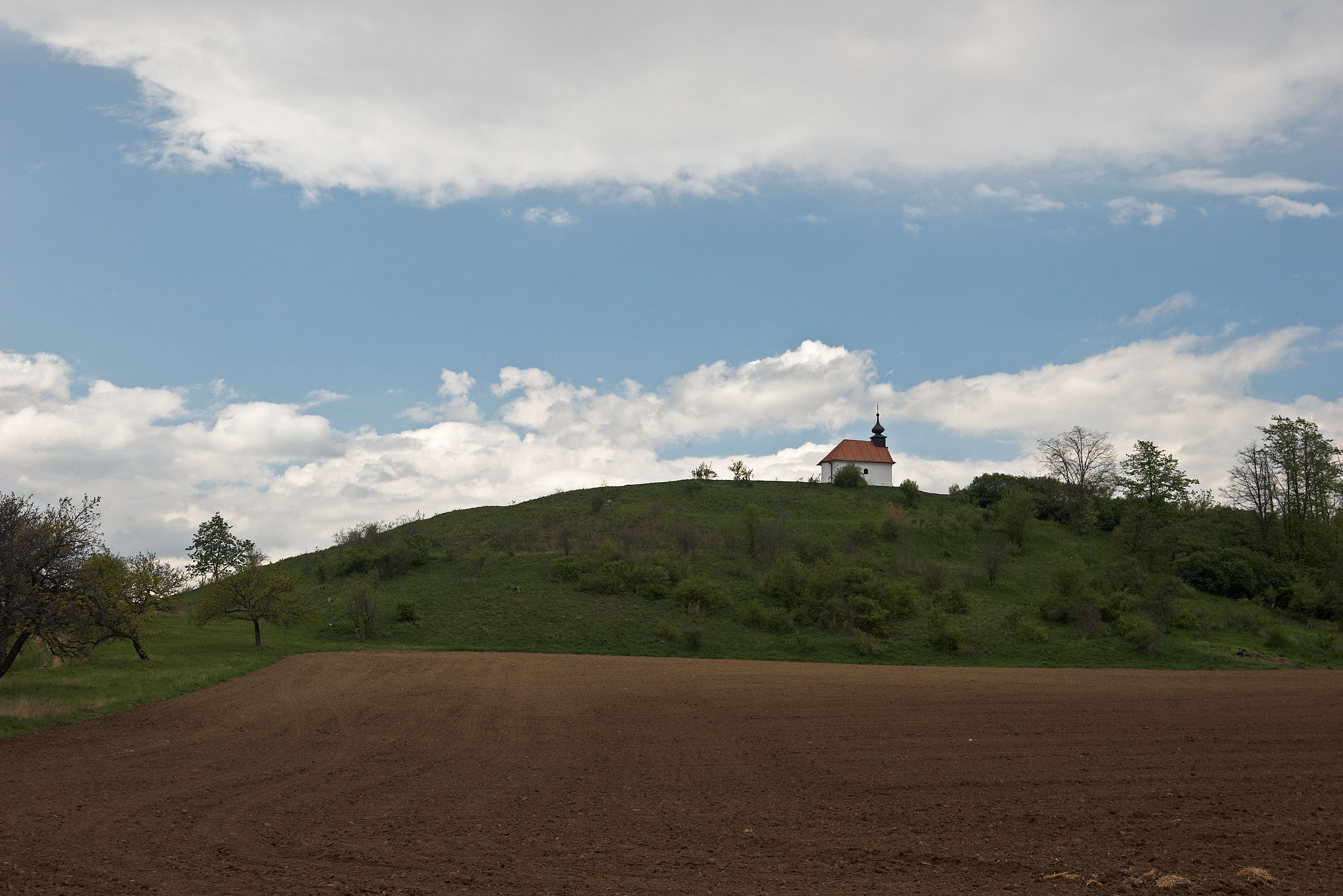 Santon Hill